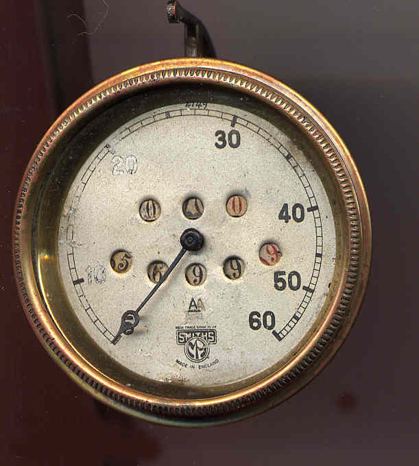 Late 1920's Smiths Speedometer showing odometer and trip meter.